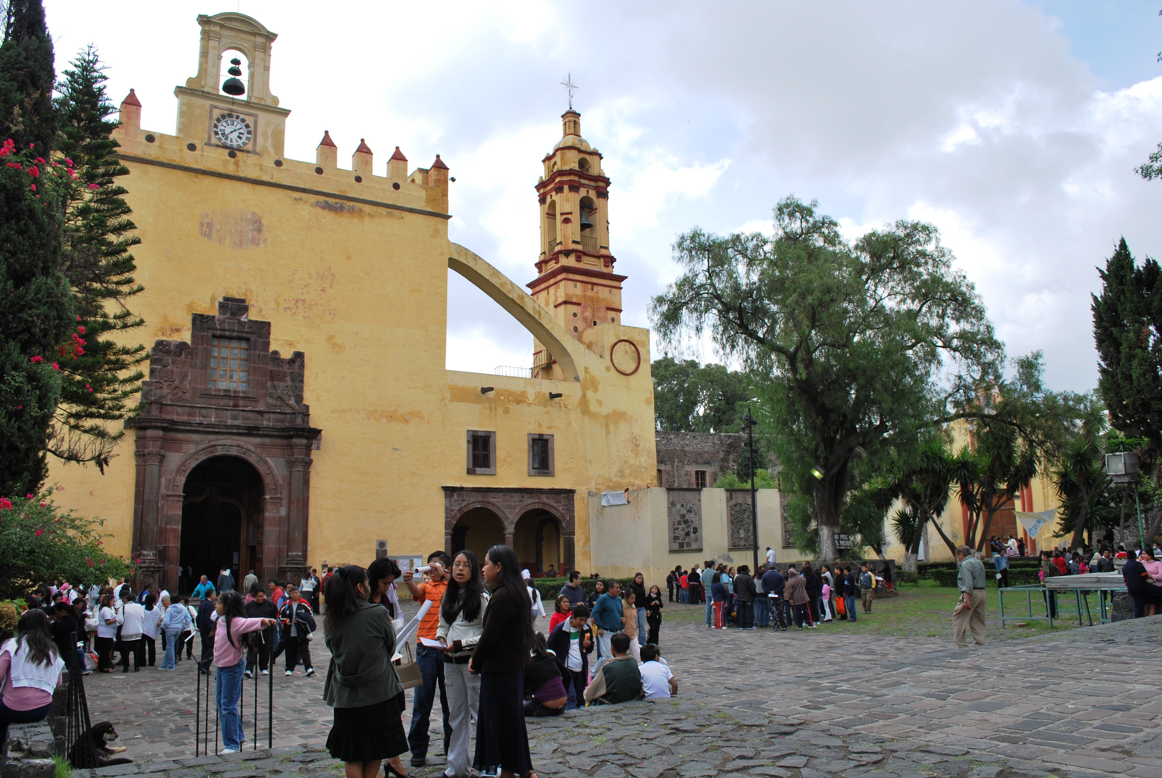 Facade of San Bernadino de Siena Parish Church in Xochimilco, Mexico City